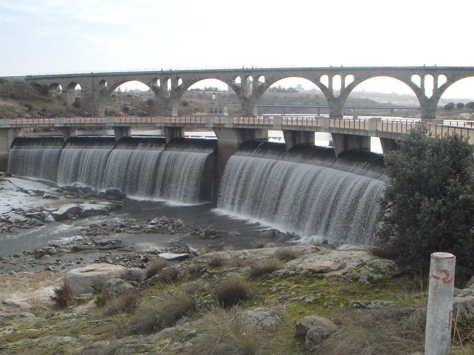 Fuentes Claras dam over Adaja River, Ávila, Spain.